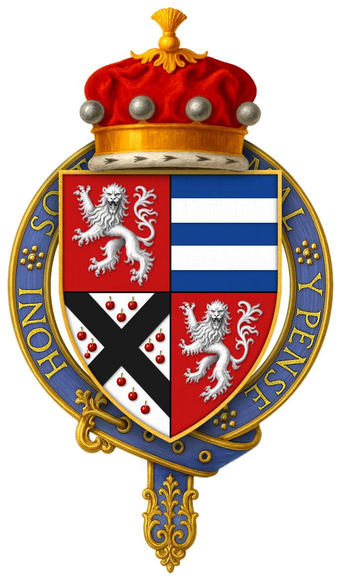 Coat of arms of Sir Henry Marney, 1st Baron Marney, KG Lord Marney's stall plate remains intact within its original stall at St. George's chapel -- arms are: Quarterly -- 1 and 4, gules a lion rampant guardant argent (for Marney); 2, azure two bars argent (for Venables); 3, argent a saltire sable between twelve cherries ppr. (for Serjeaux). Note: Sergeaux / Serjeaux bore argent a saltire sable between twelve cherries slipped gules[1] and ... slipped proper[2] but further documentation has not been obtained to establish the exact familial connection. A presumed ancestor, William Marney (1370-1414), was married to Elizabeth Sergeaux, daughter and co-heiress of Sir Richard III Sergeaux of Colquite, Cornwall.